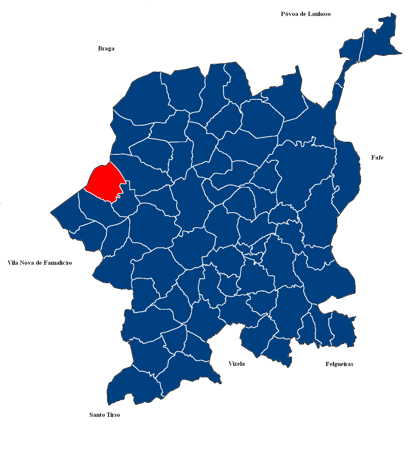 Map of Parish of Leitões, Guimarães, Portugal.